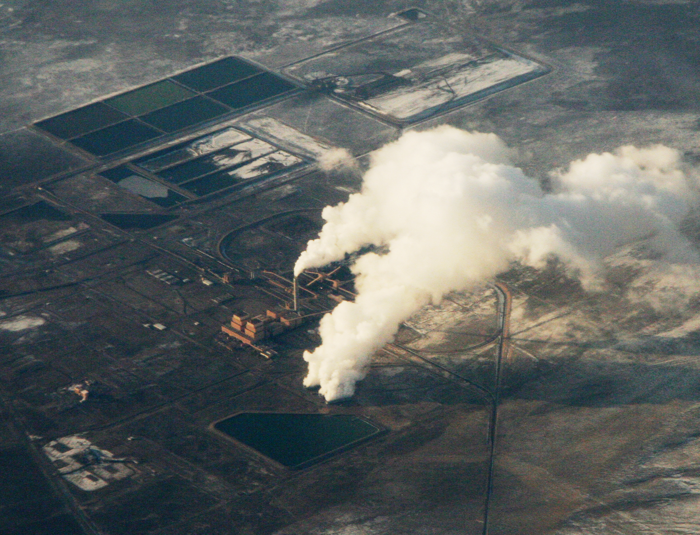 The Intermountain Power Project (IPP), operated by the Intermountain Power Agency, which, as you can see at that last link, supplies most of the 1800MW capacity of this coal-fired plant to the Los Angeles area. The coal it fires is all mined in utah and brought by rail. The site is on the floor of Lake Bonneville, an ice-age lake that filled much of Utah, and of which some puddles, including the Great Salt Lake, Sevier Lake, and Lake Provo, remain. To the east is the Little Sahara National Recreation Area. Southeast is the town of Delta, on he Sevier River.